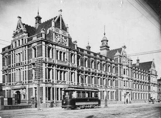 Government railway building in Wellington, New Zealand.Head Office, 75 Featherston Street